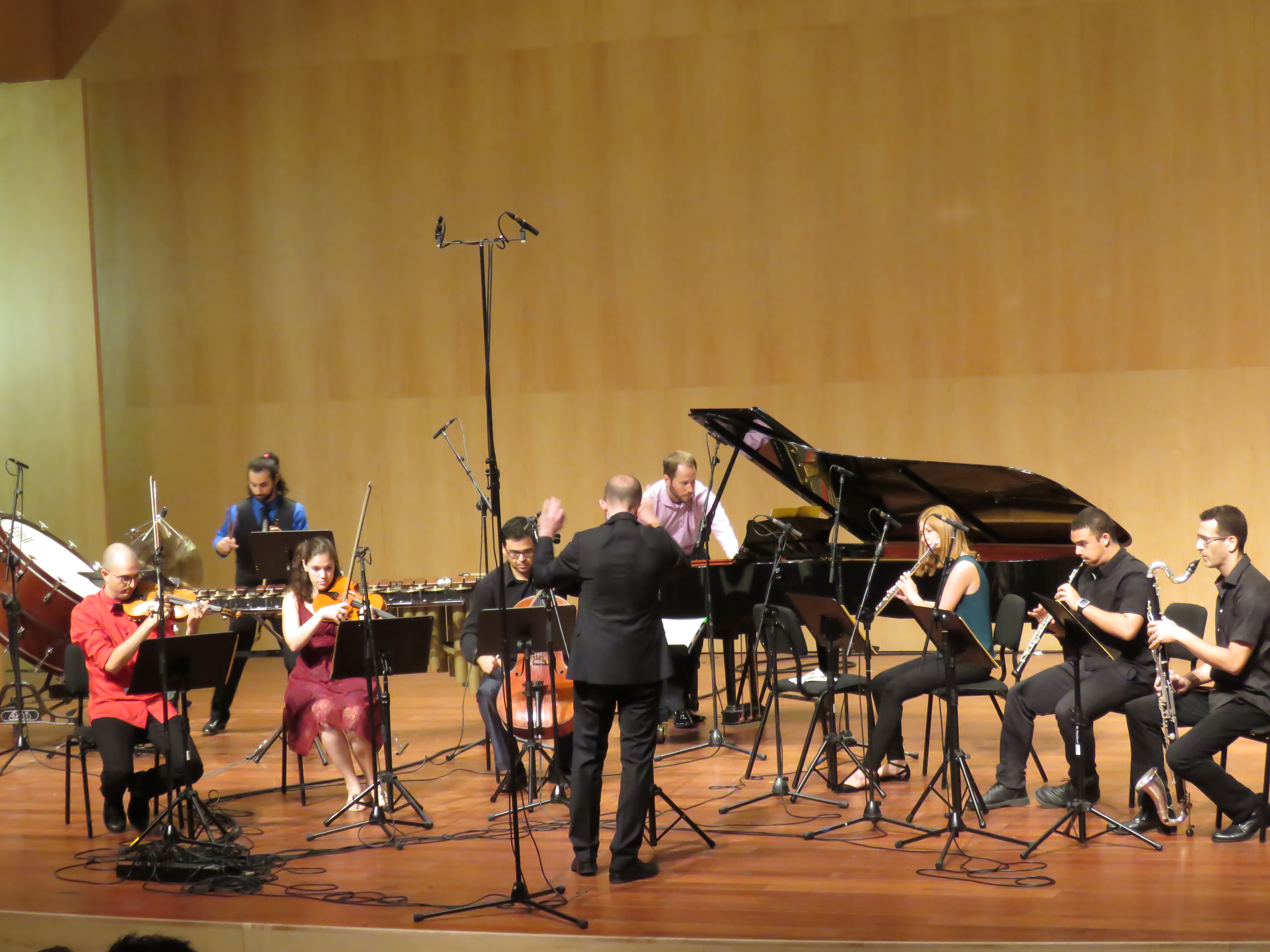 Meitar Ensemble at the Tel Aviv Museum of Art, September 2015